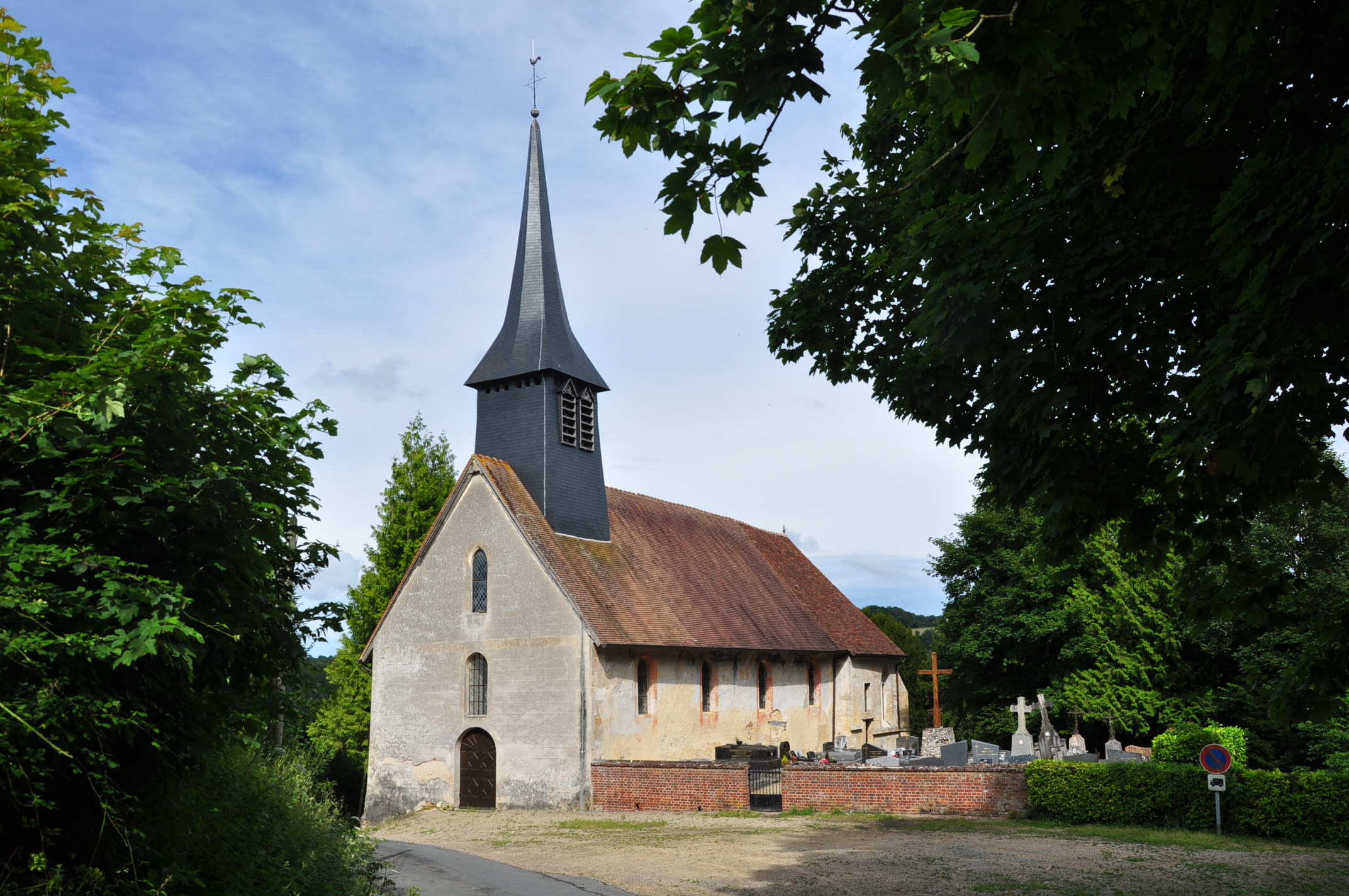 The Notre Dame church of Auquainville dates from the 15th-18th century and is a listed historic building (Calvados department, Lower Normandy, France).